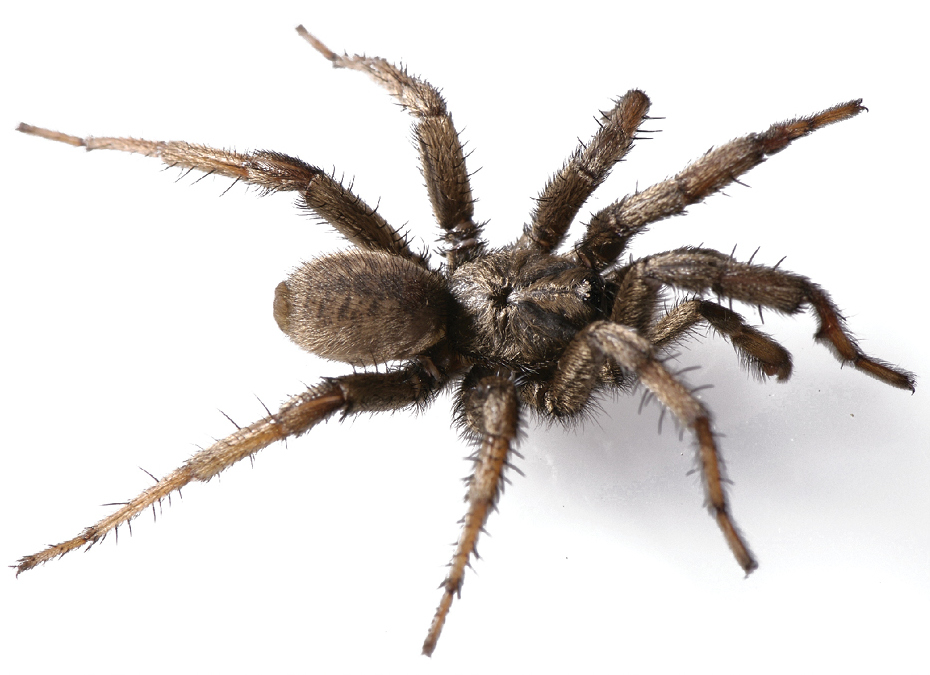 Male specimen of Aptostichus angelinajolieae specimens from Monterey Co., Monterey, live photographs.